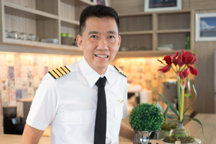 น.ท.ปิยะ ตรีกาลนนท์ ประธานกรรมการบริหาร บริษัท บางกอกเอวิเอชั่นเซ็นเตอร์ หรือ บีเอซี ผู้ดำเนินธุรกิจโรงเรียนการบินกรุงเทพ โรงเรียนการบินเอกชนแห่งแรกในไทย ในวัย 49 ปี